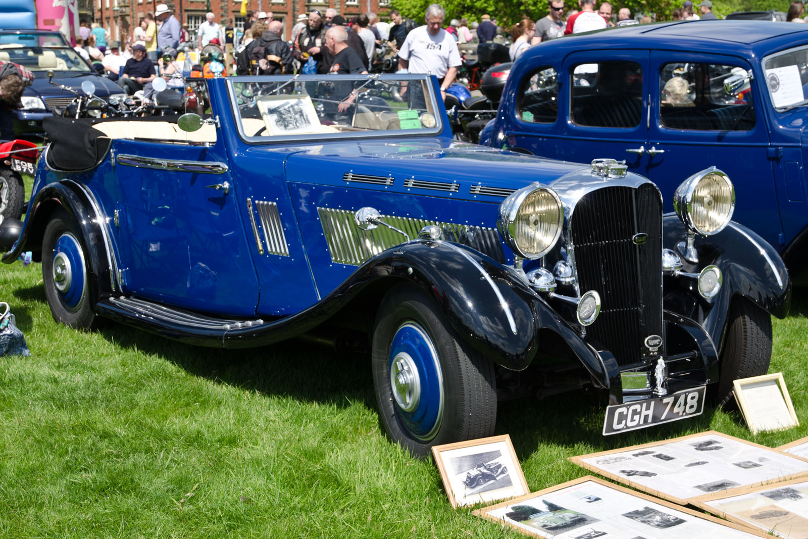 Brough Superior drop head coupé 1935(DVLA) first registered 18 October 1935, 4168ccCapesthorne Hall Classic Car Show 26/05/2013